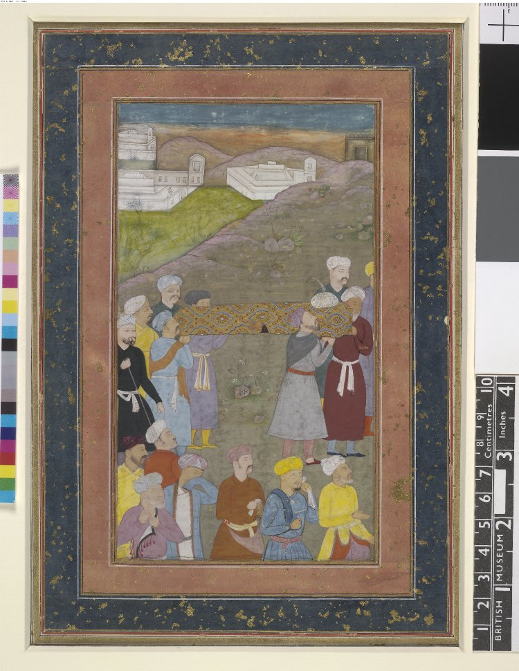 The funeral of Iskandar, from a Khamseh of Nizami. Ascribed to Salim Quli. Mughal India, c. 1610 Unlike earlier Persian and Mughal versions of Iskandar's death and burial, this illustration presents the episode soberly. Pallbearers carry his coffin draped with brocaded silk and his turban at one end. In Nizami's version Iskandar fell ill and died near Babylon. Because he believed he had been poisoned, no antidotes could revive him.